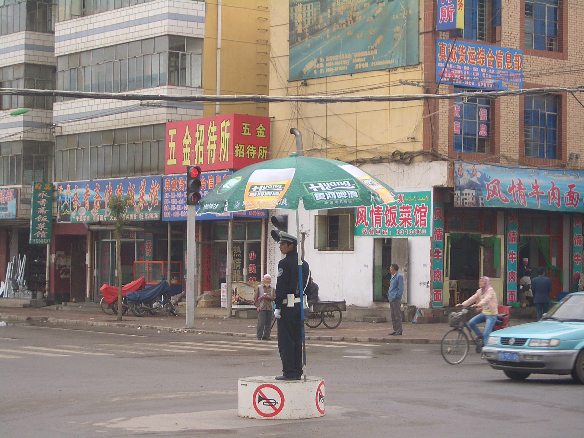 A traffic policeman directs traffic at a street crossing in the southwest of Linxia City (at or near and Xin Xi Lu)